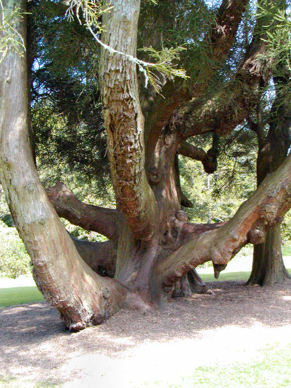 Trelissick Sugi